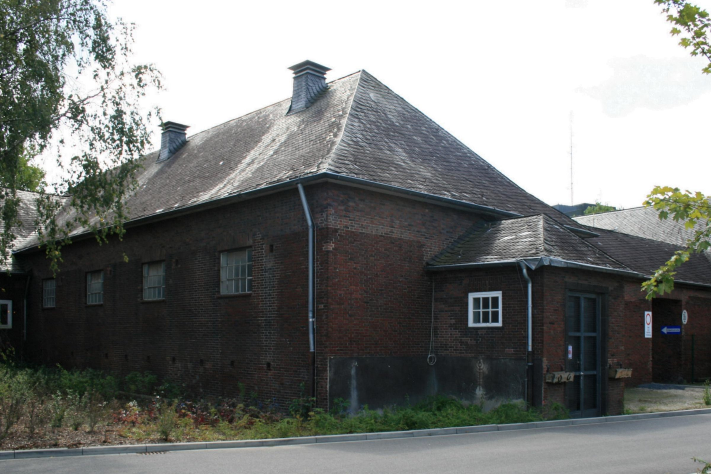 Cultural heritage monument No. T 008b in Mönchengladbach